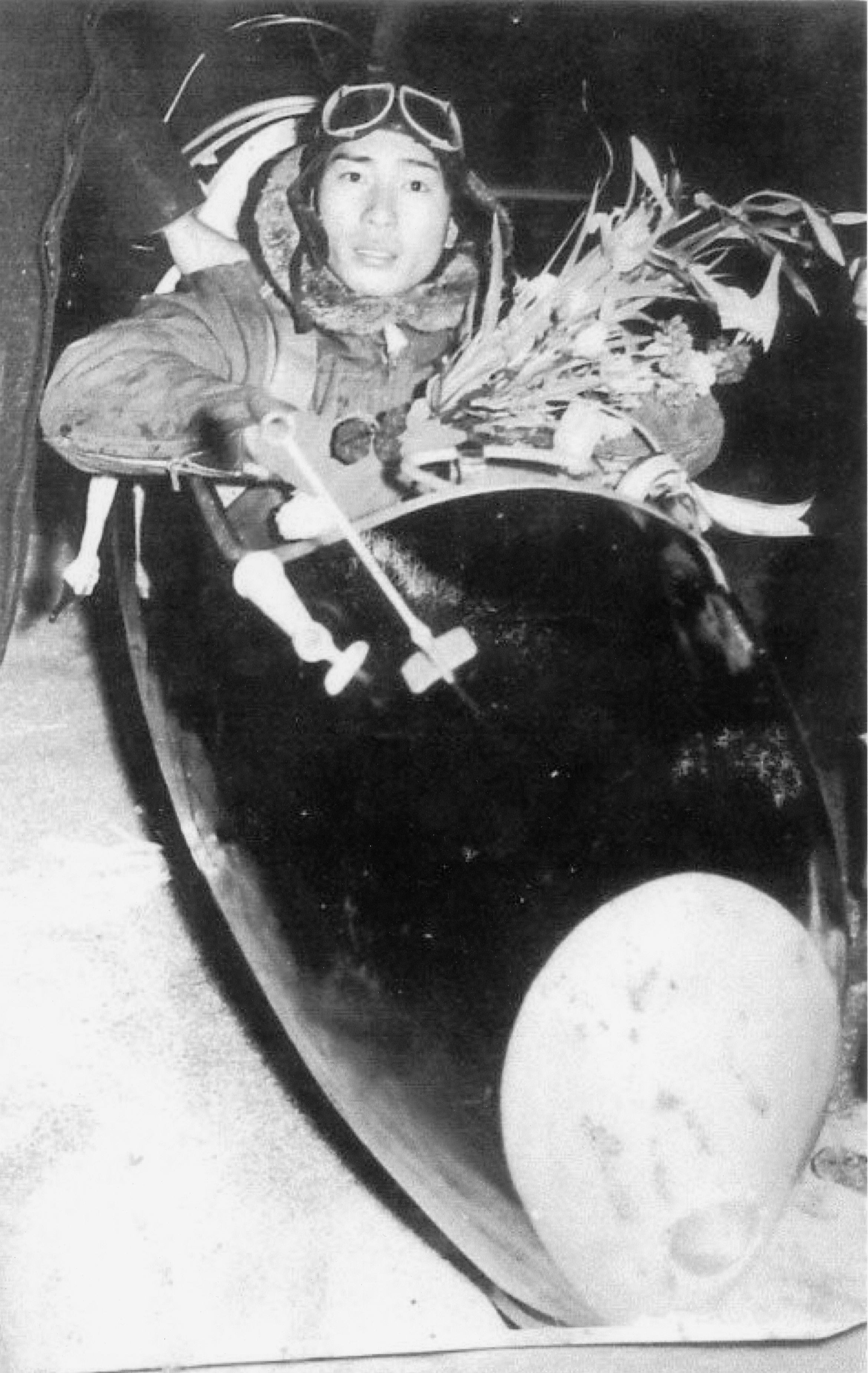 Tadao Kawabe achieved stay in air Japan record by the glider on February 8, 1941